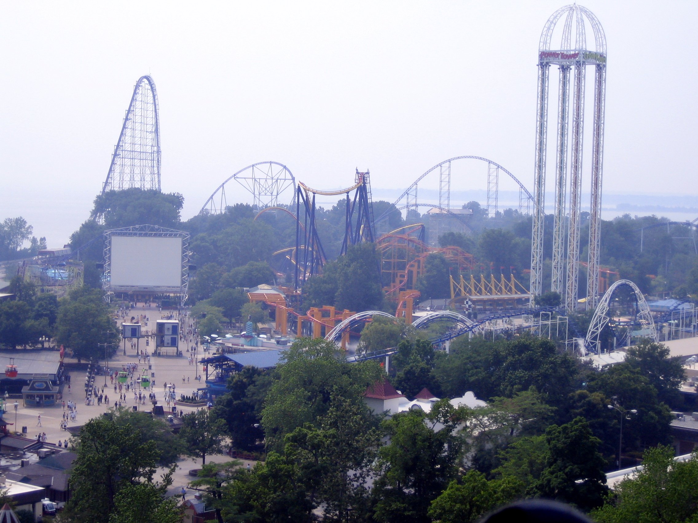 roller coasters at Cedar Point